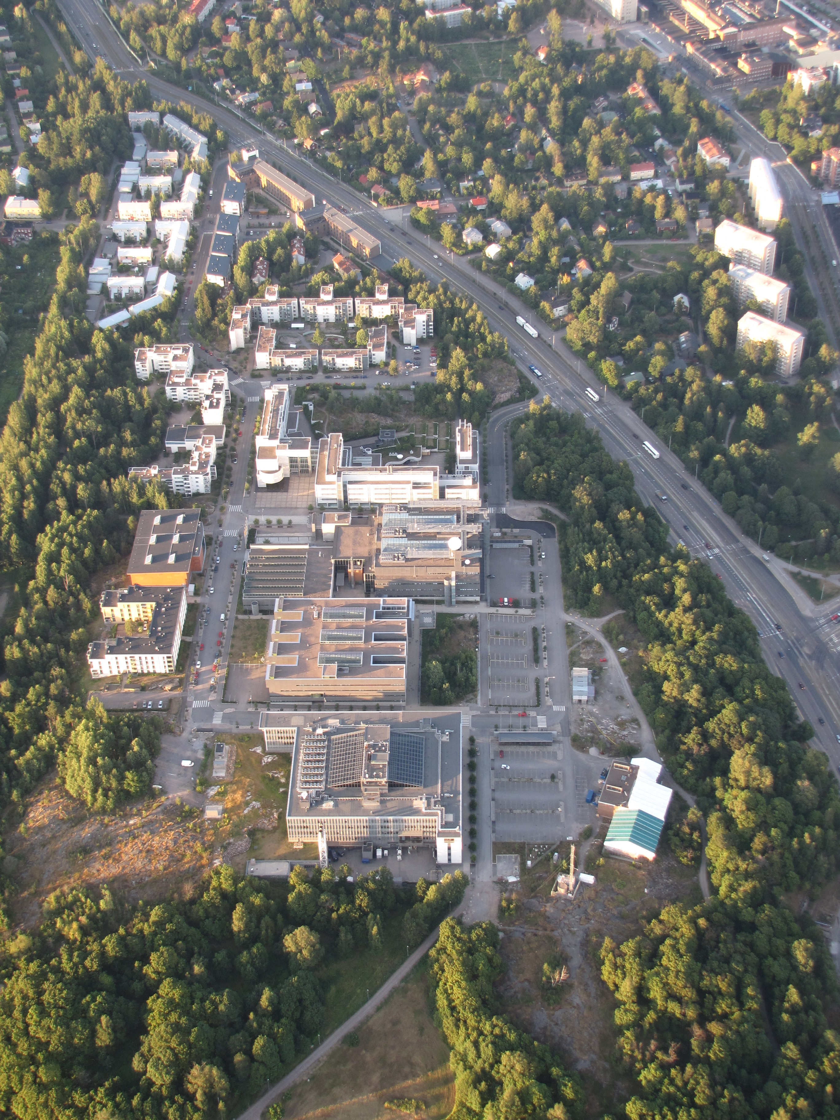 University of Helsinki Kumpula campus area photographed from a hot air balloon.